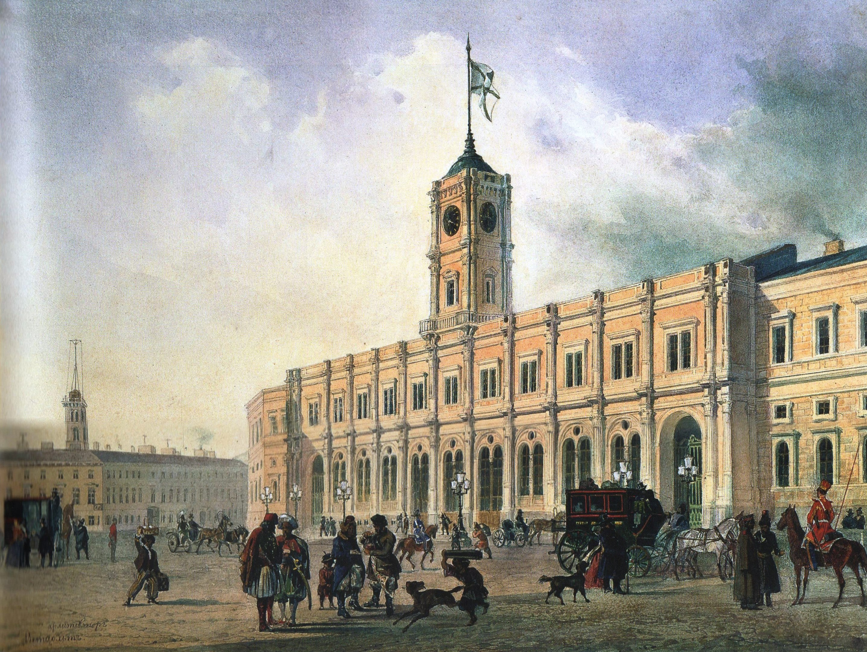 Nikolaevsky rail terminal. Saint-Petersburg